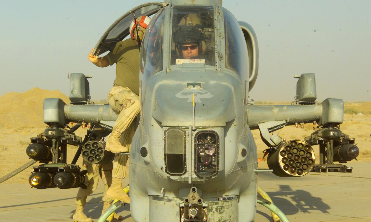 Submitted by: Headquarters Marine Corps Operation/Exercise/Event: Operation Iraqi Freedom Caption: IRAQ - A Marine from Heavy Mobile Helicopter Squadron 169, speaks to the copilot of an AH-1 Cobra while refueling at a Forward Operating Base in Iraq April 11 while in support of Operation Iraqi Freedom. Operation Iraqi